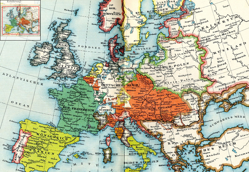 Map of Europe in 1740.